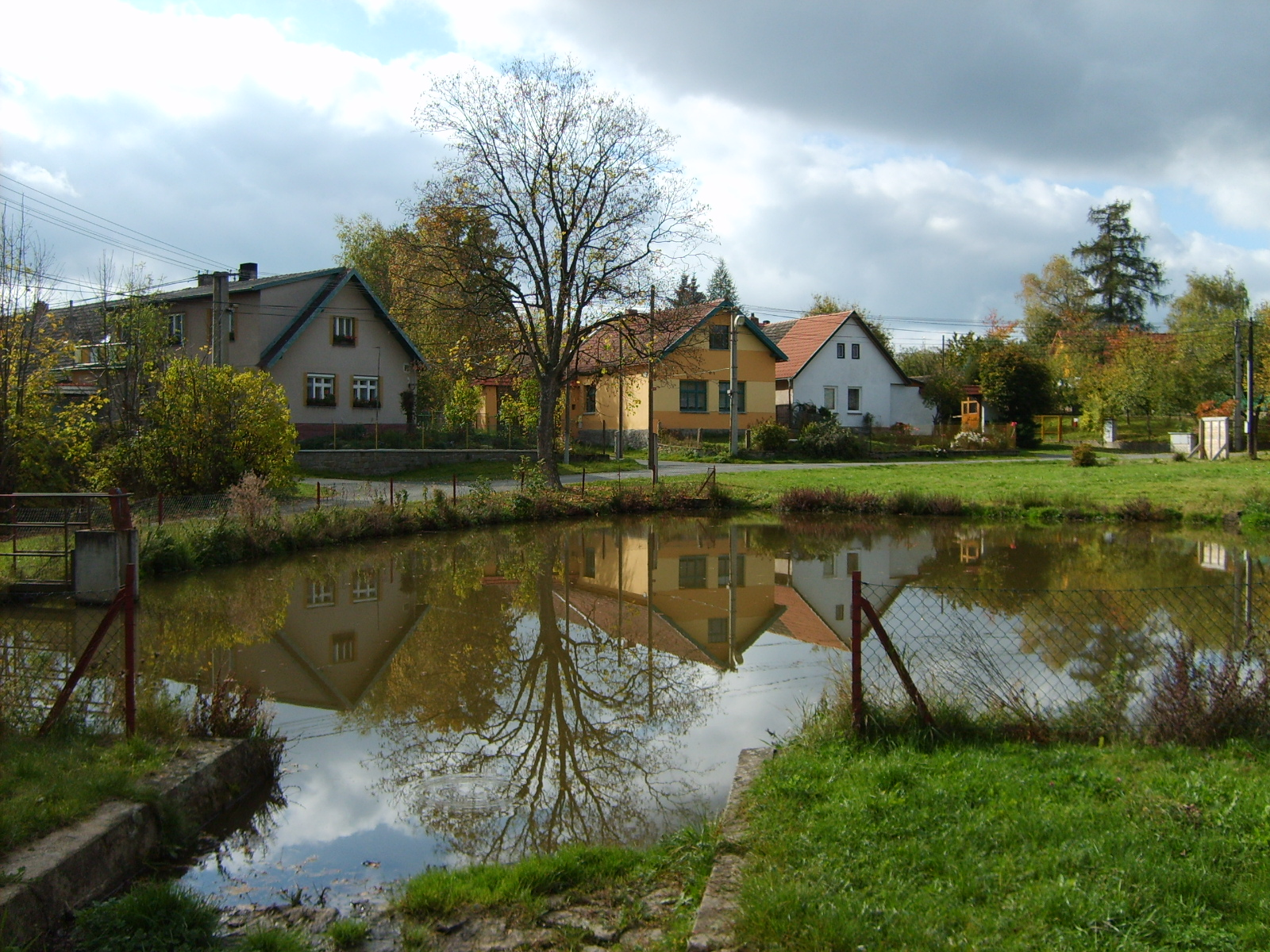 Village square in Děkanovice, Czech rep.